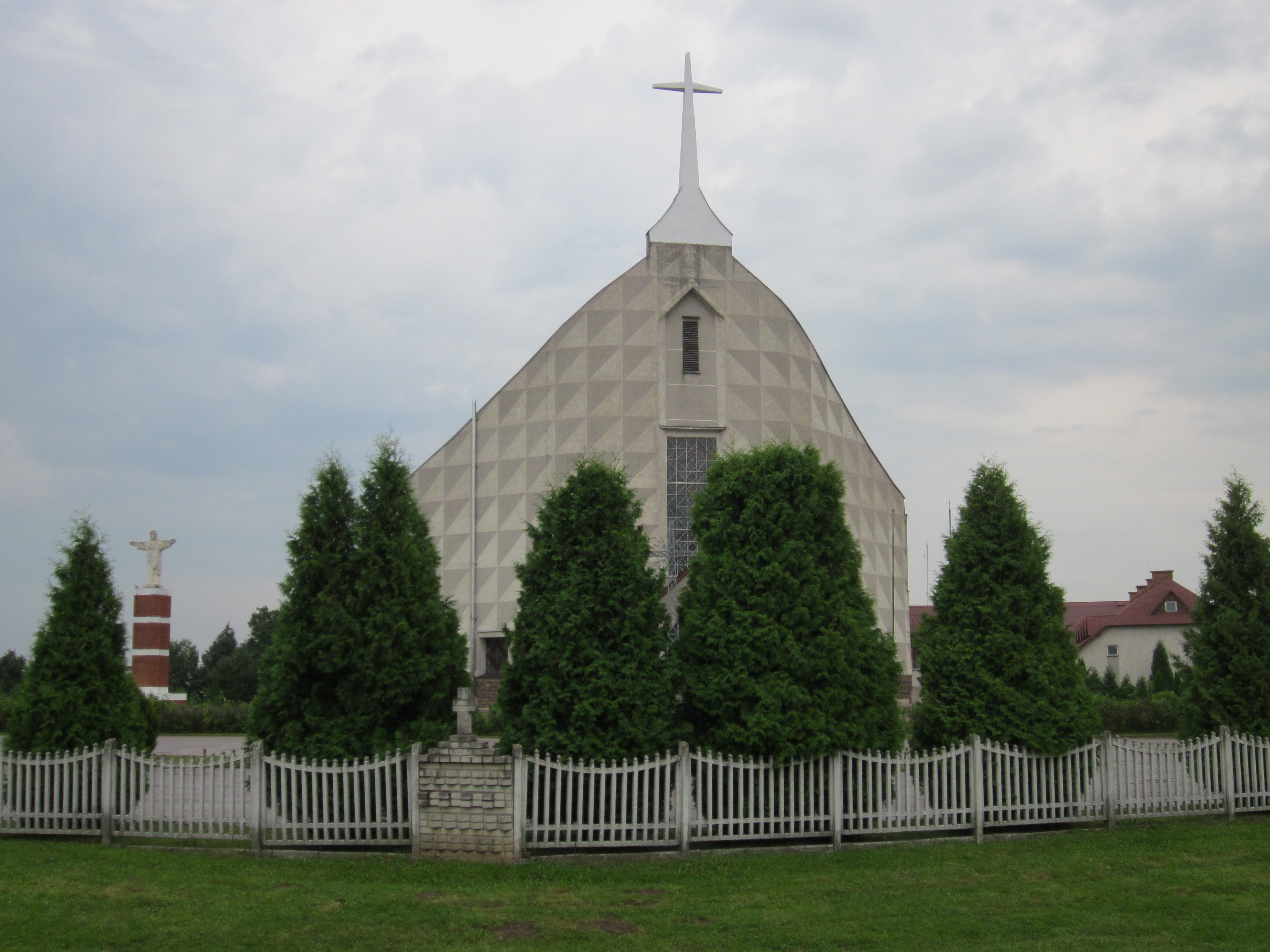 Zambrów - church of the Holy Spirit